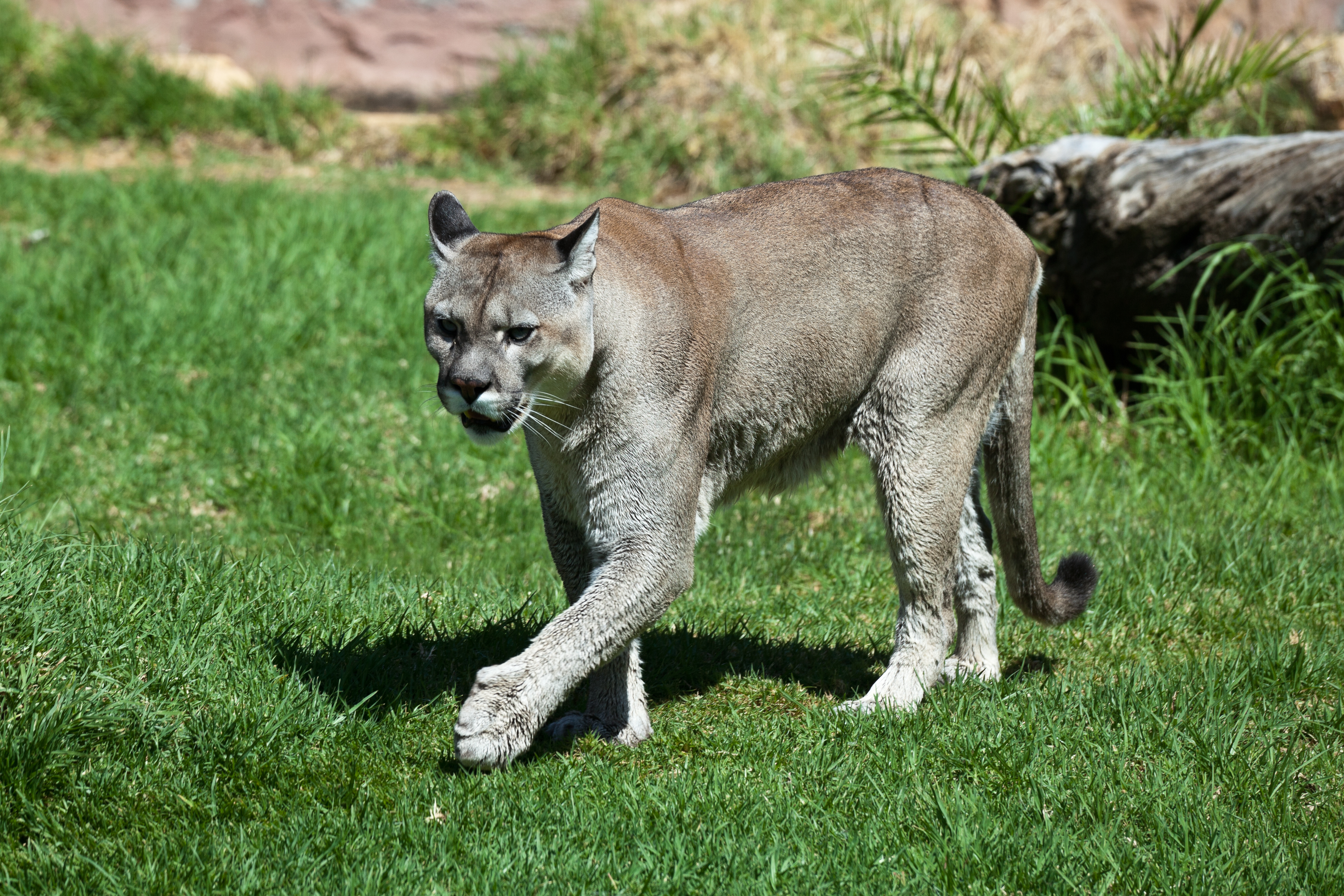 Puma concolor stanleyana, Rancho Texas Park. Tías, Lanzarote